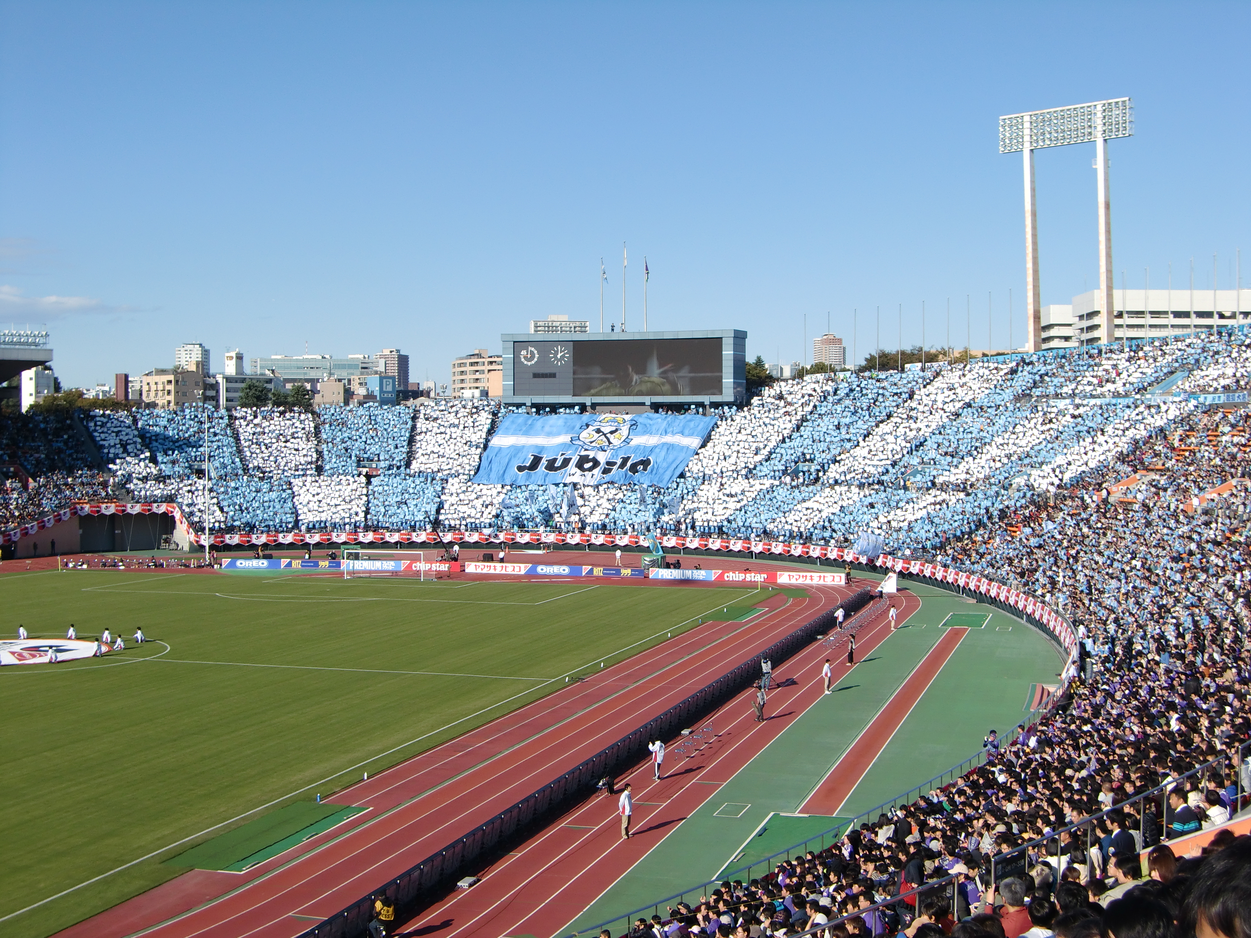 Nabisco Final 2001